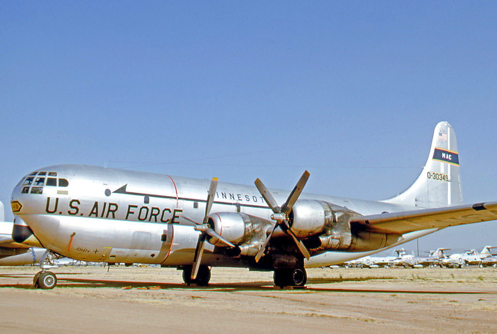 Boeing C-97G Stratofreighter 53-0349 of the Minnesota Air National Guard at Davis Monthan AFB in 1971